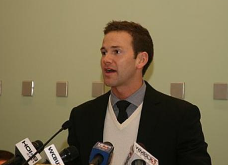 Illinois Congressman Aaron Schock at a press conference in 2009. Microphones shown are for Peoria, Illinois stations WHOI 19, 89.9 WCBU, WEEK-TV 25, and WMBD-TV 31.